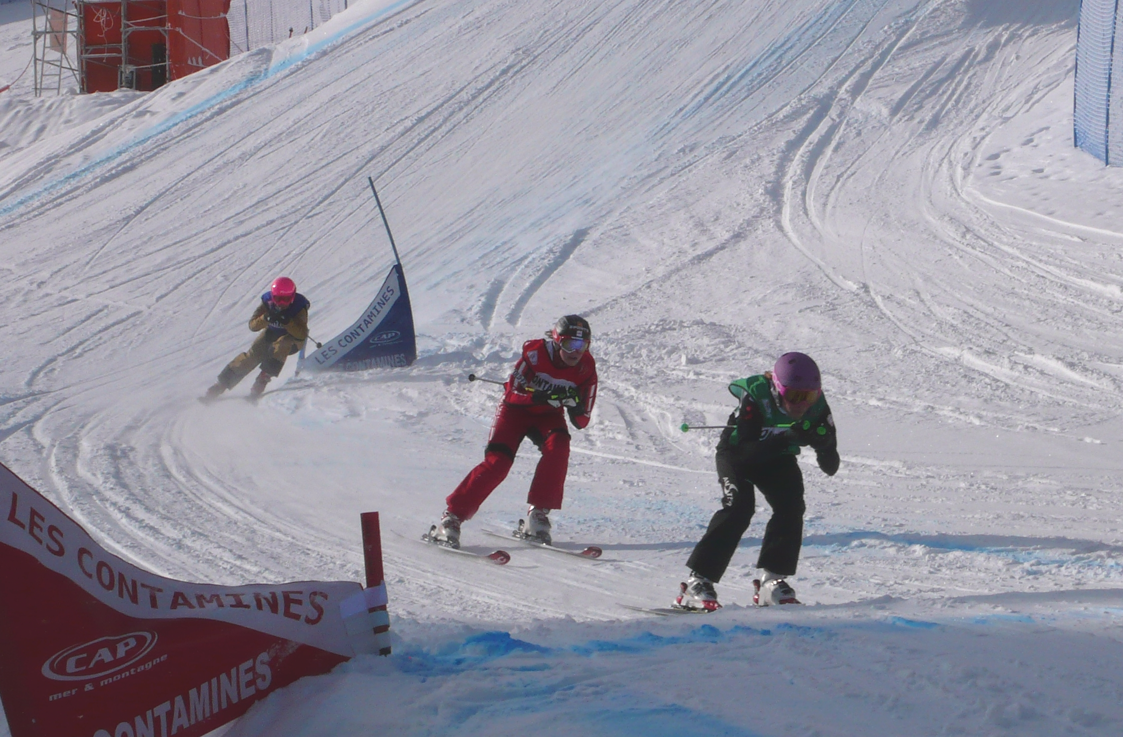 Ski Cross World Cup at Les Contamines-Montjoie, semi final with : Karin Huttary, Julia Murray, Marion Josserand